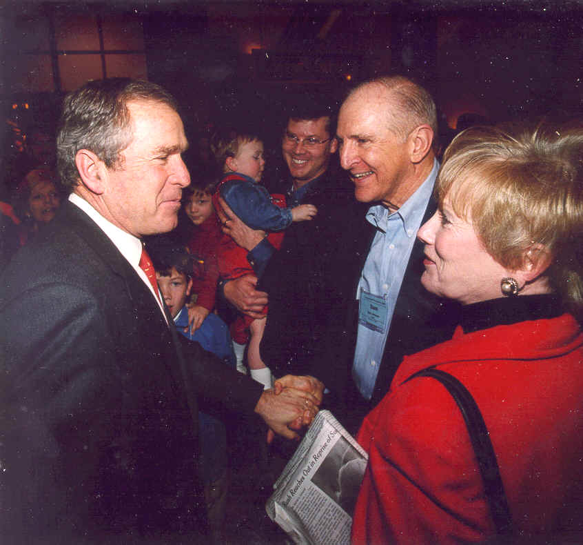 President George W. Bush cracks a joke with U.S. Rep. Sam Johnson and Congresswoman Kay Granger.